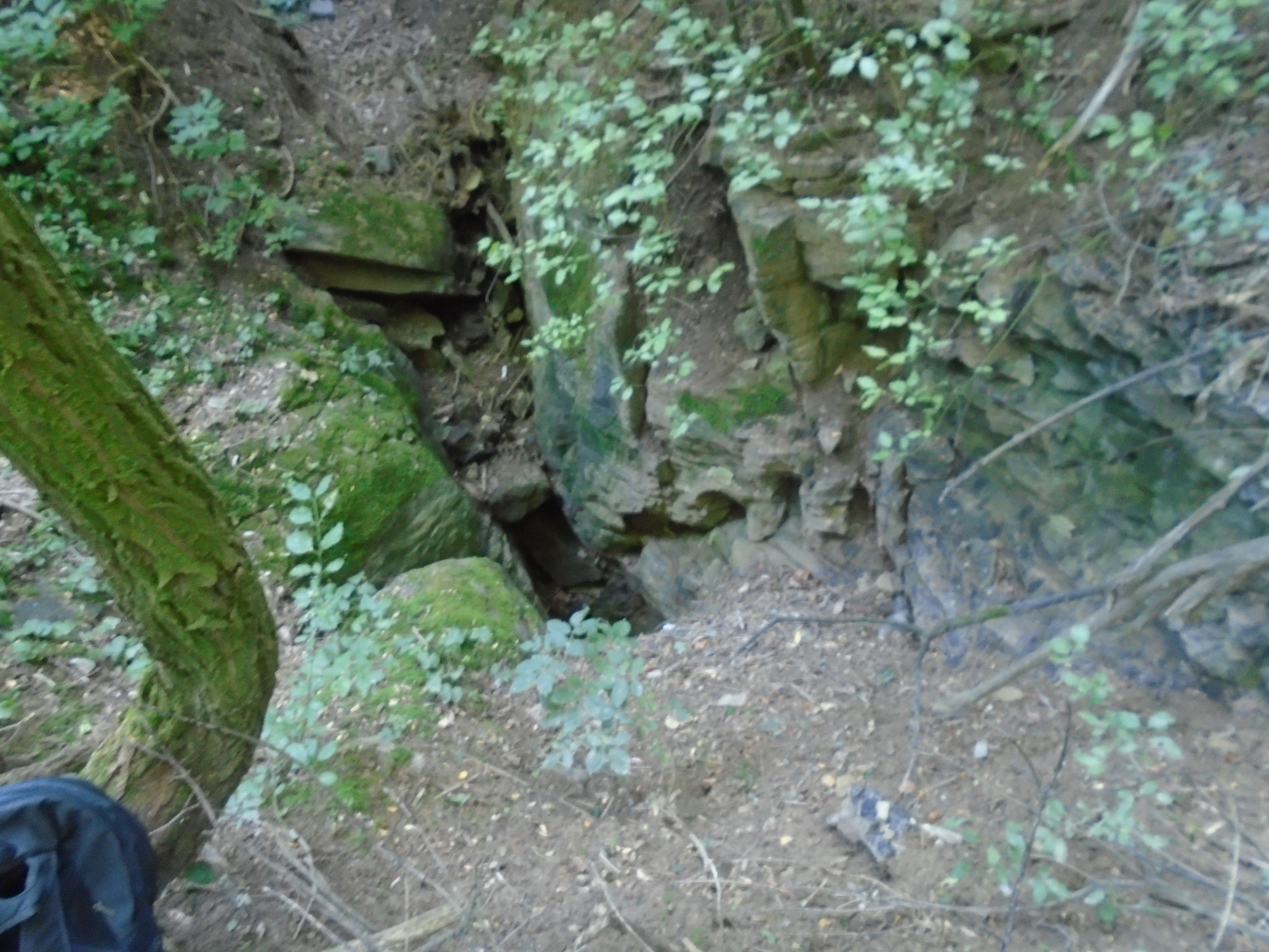 Entrance of Ürömi Sinkhole in Üröm.